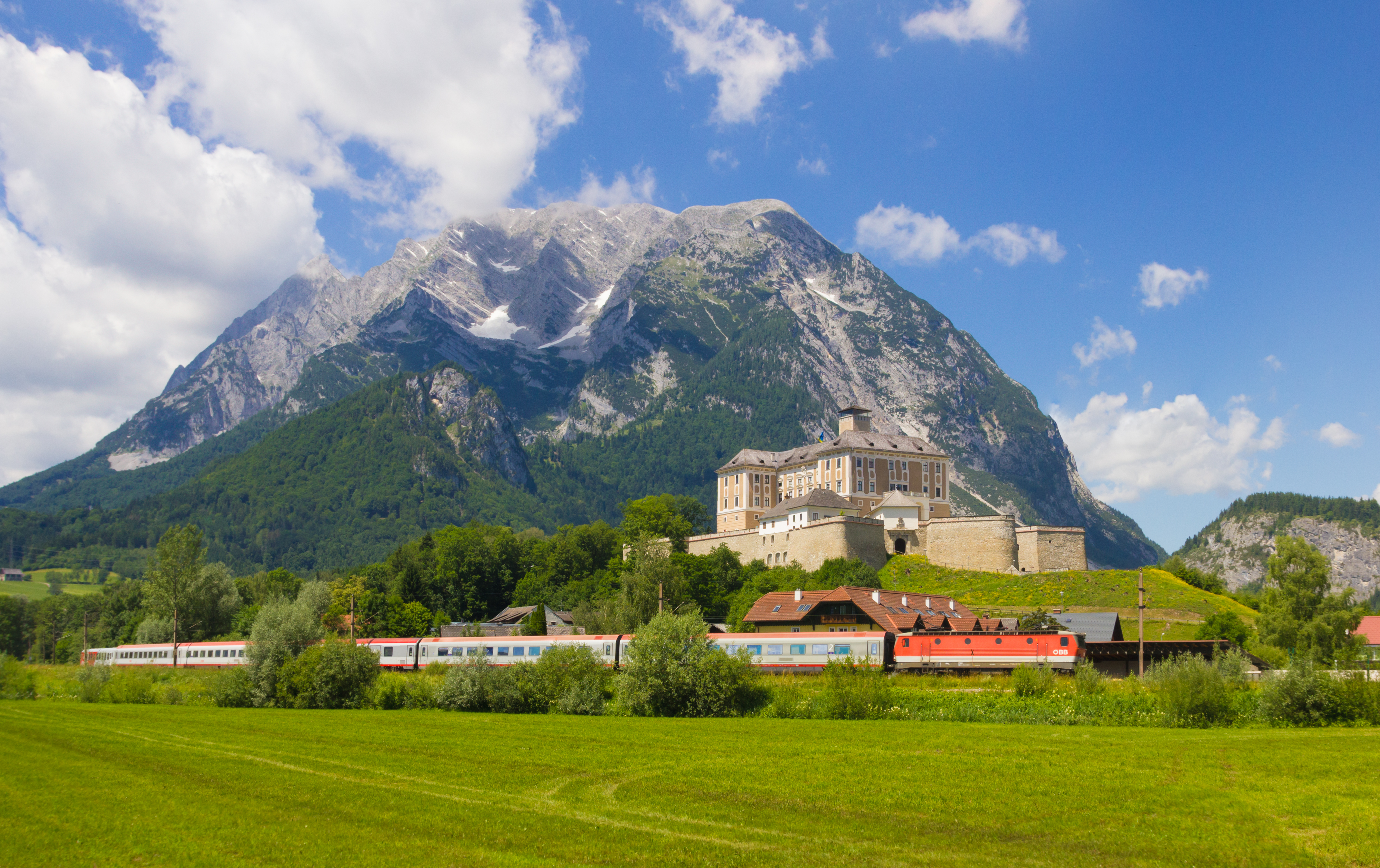 An IC train near Trautenfels Castle, Styria.